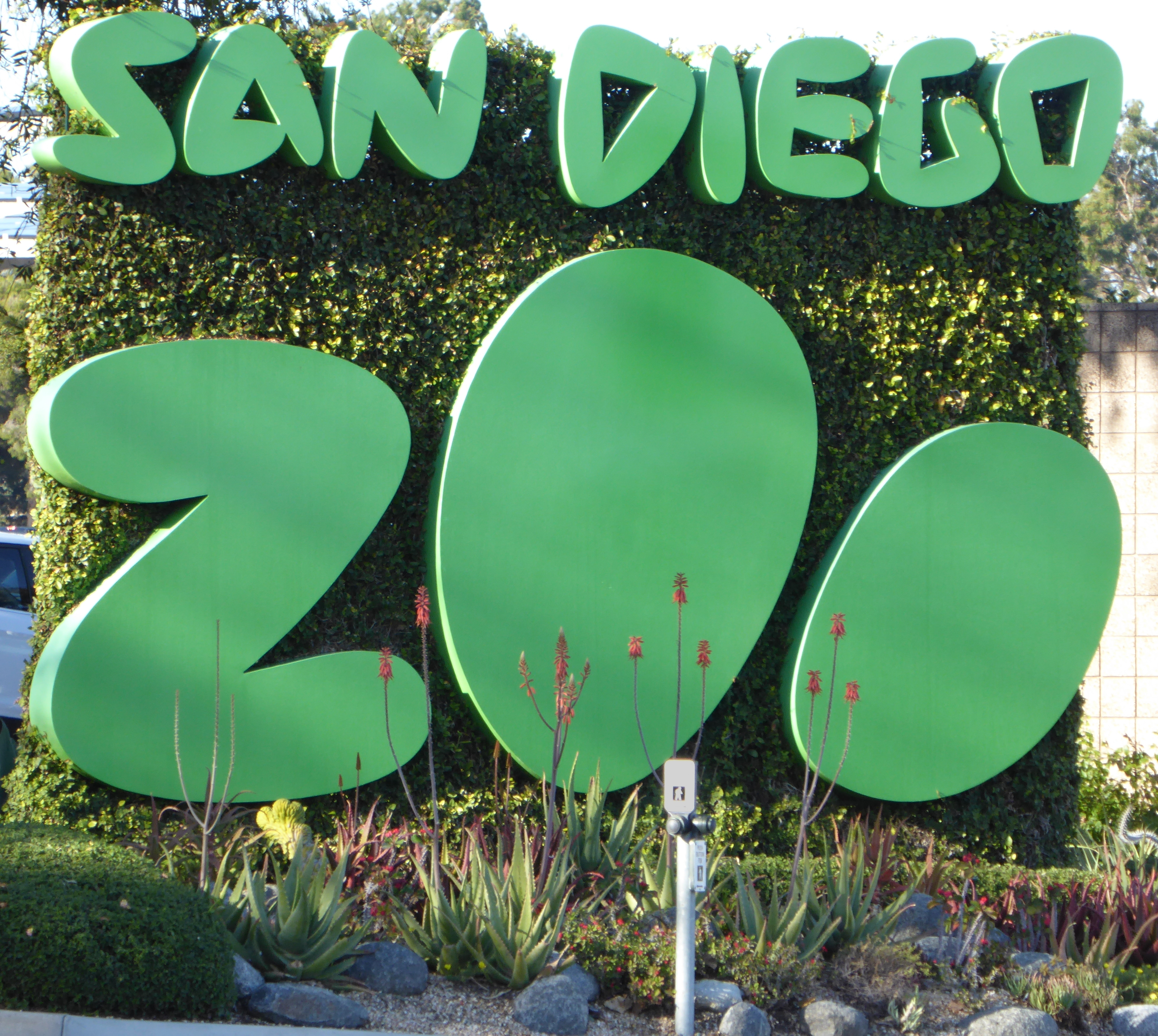 San Diego Zoo street sign on Park Blvd w/ ivy fully grown in.Cropped and crosswalk plaque grayed out a bit.